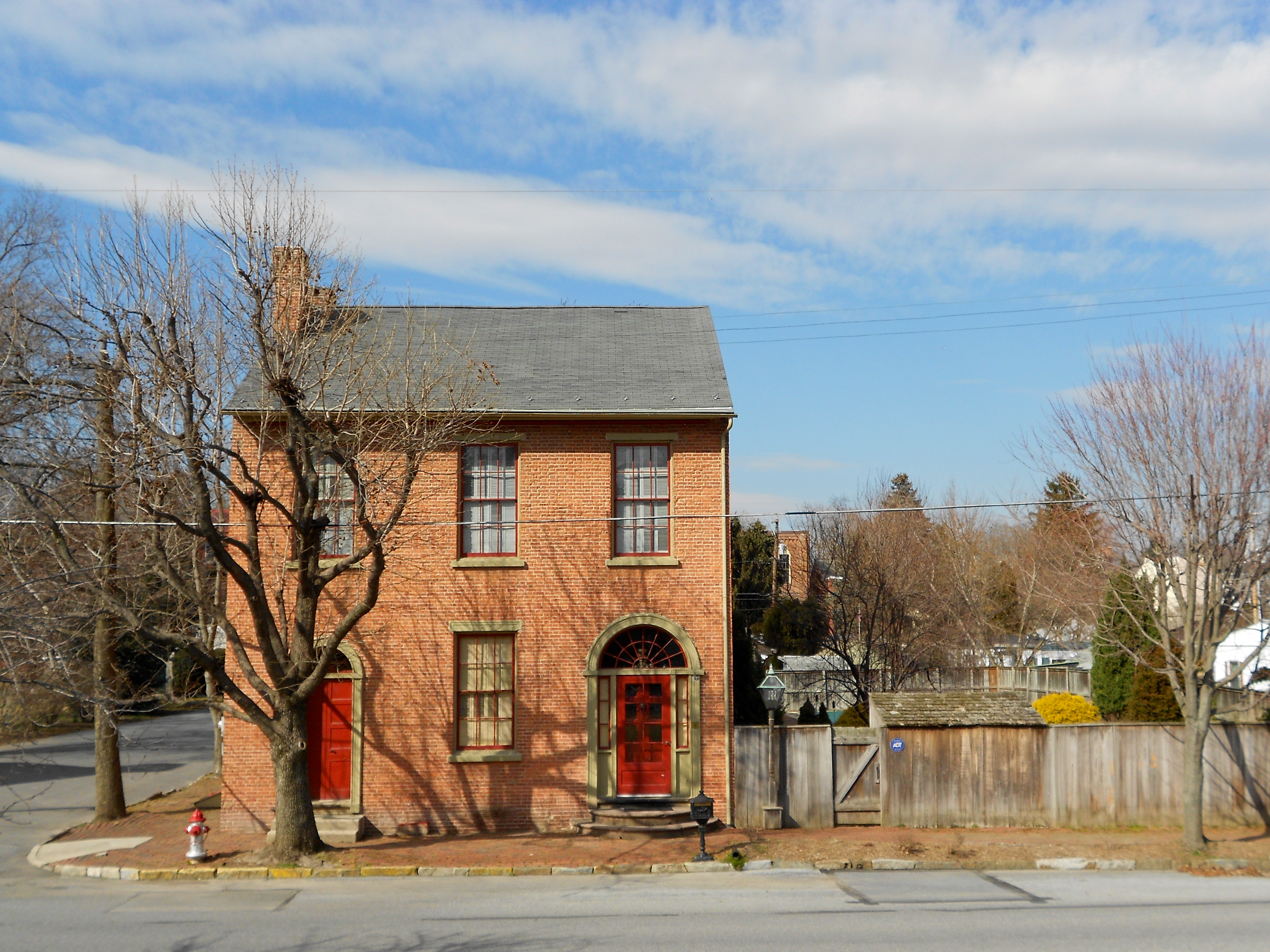 Joseph Bucher House on the NRHP since September 7, 1979. At 104 East Front St, Marietta, Lancaster County, Pennsylvania.